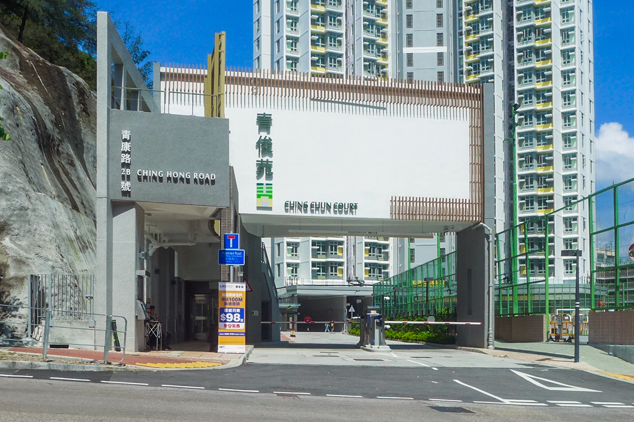 Ching Chun Court Entrance